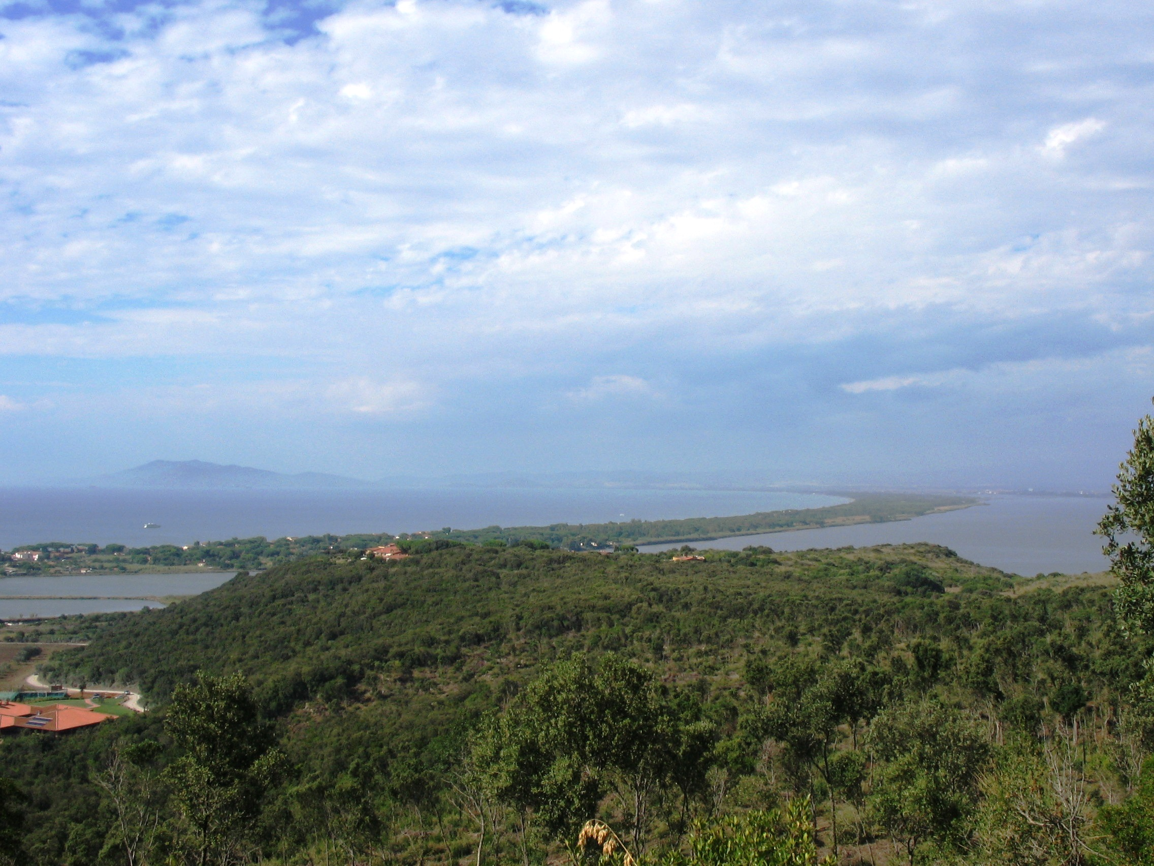 Monte Argentario - Giannella view